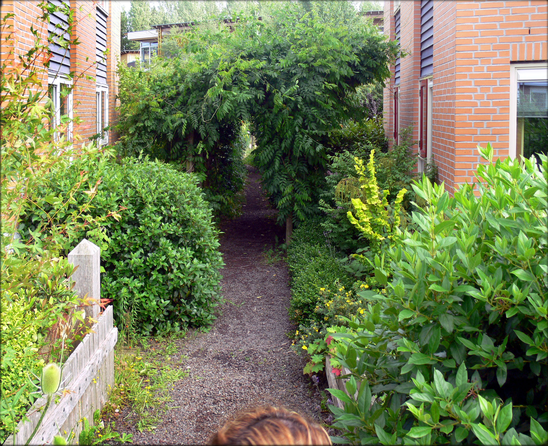 Vegetal path in E.V.A. Lanxmeer district (a "green distric" named Lanxmeer, built at Culemborg, The Netherlands), wich is a recent (1994-2009) district (semi-public eco-building) of approximately 250 ecological houses, several offices and a urban farm. The project is based on "Sustainable Implant" with a spatial combinaison of natural systems, technical approach of integrated waste (wastewater) / energy system and écological and social purposes, for an urban neighborhood. The district is in an ecologically sensitive area (former drinking waterextraction and retention area). The conception of this district is based on permaculture, and organic design, a small biogas installation (able to treate black water and organic waste and garden & park waste), a combined Heat Power. Some houses are in closed greenhouse. A semi-public building (the ‘EVA Centre) should yet be made, based on the Living Machine concept.